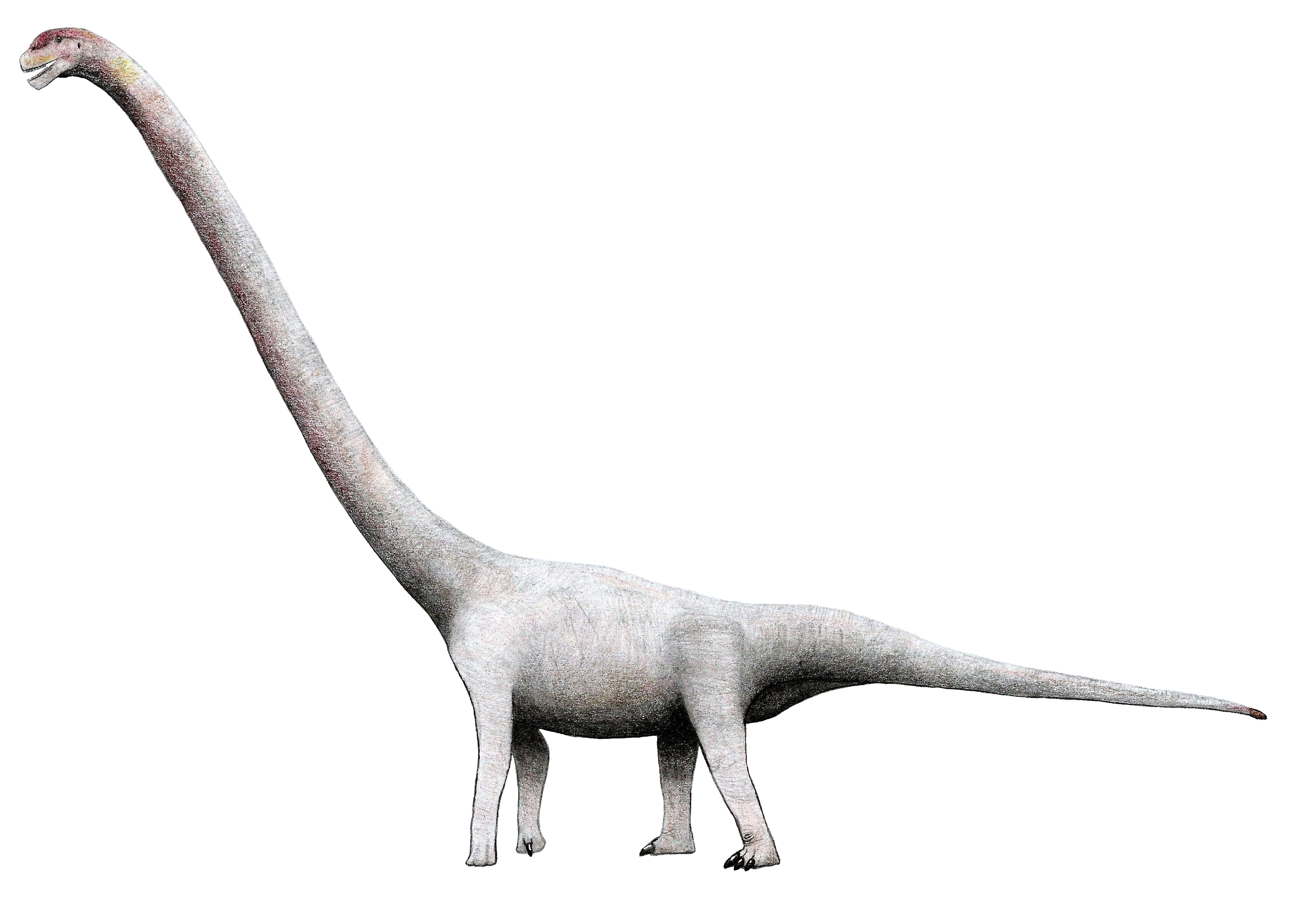 Restauration of Omeisaurus tianfuensis